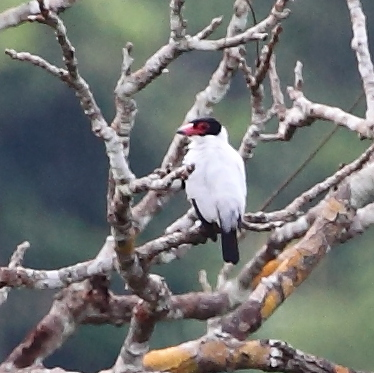 Black-tailed Tityra (male) at Manaus - AM - Brasil